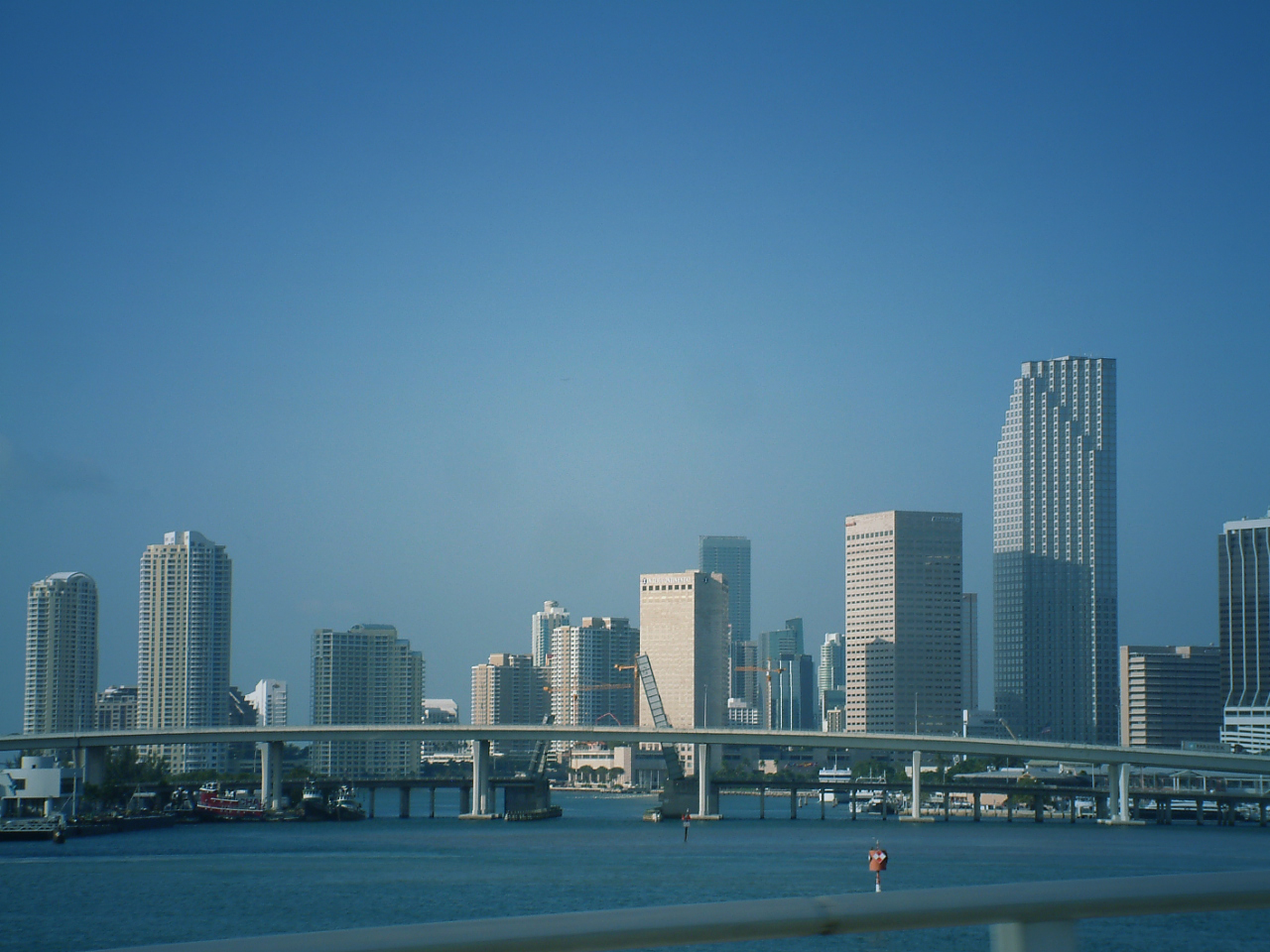 Miami's City